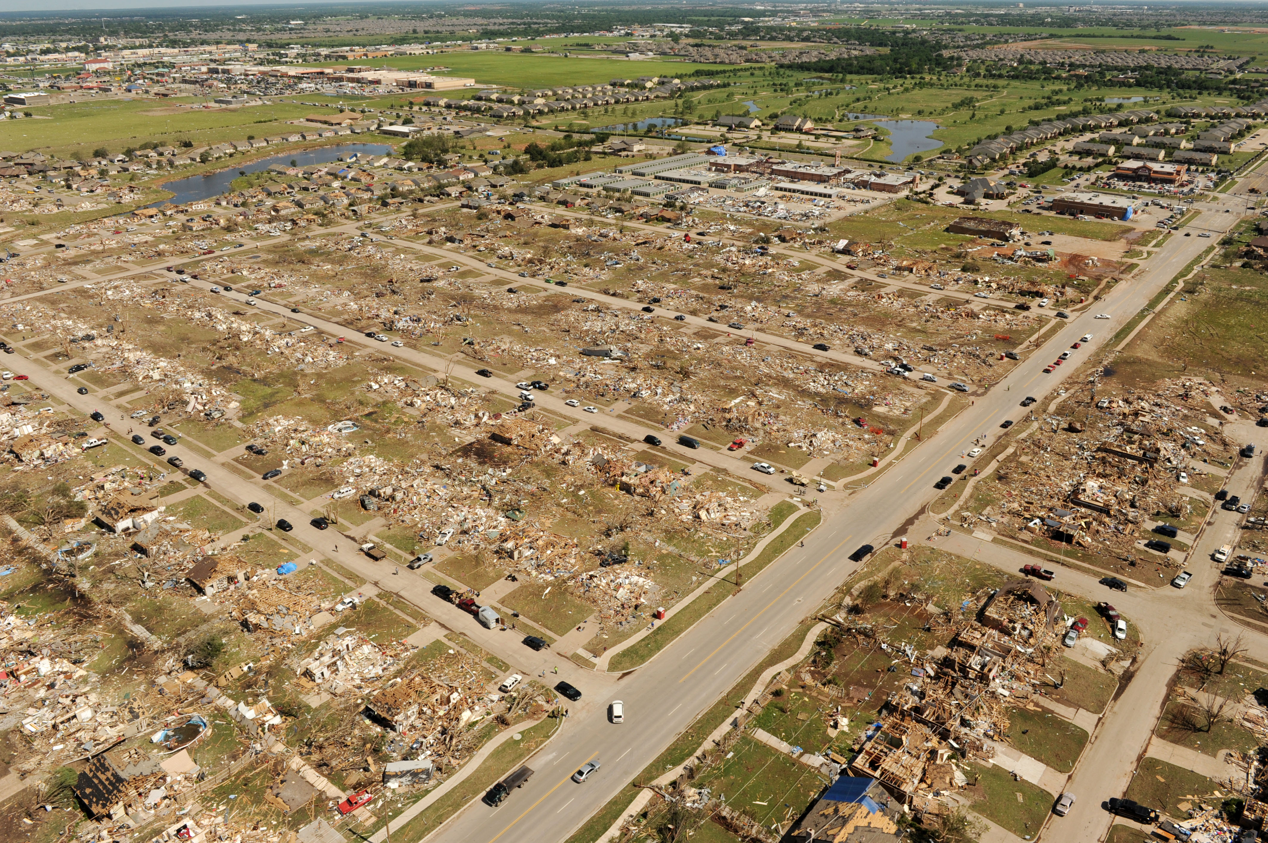 Aerial views of the damage caused by the tornado that touched down in the area on May 20, 2013. FEMA continues to assist disaster survivors and are encouraged to register for assistance.